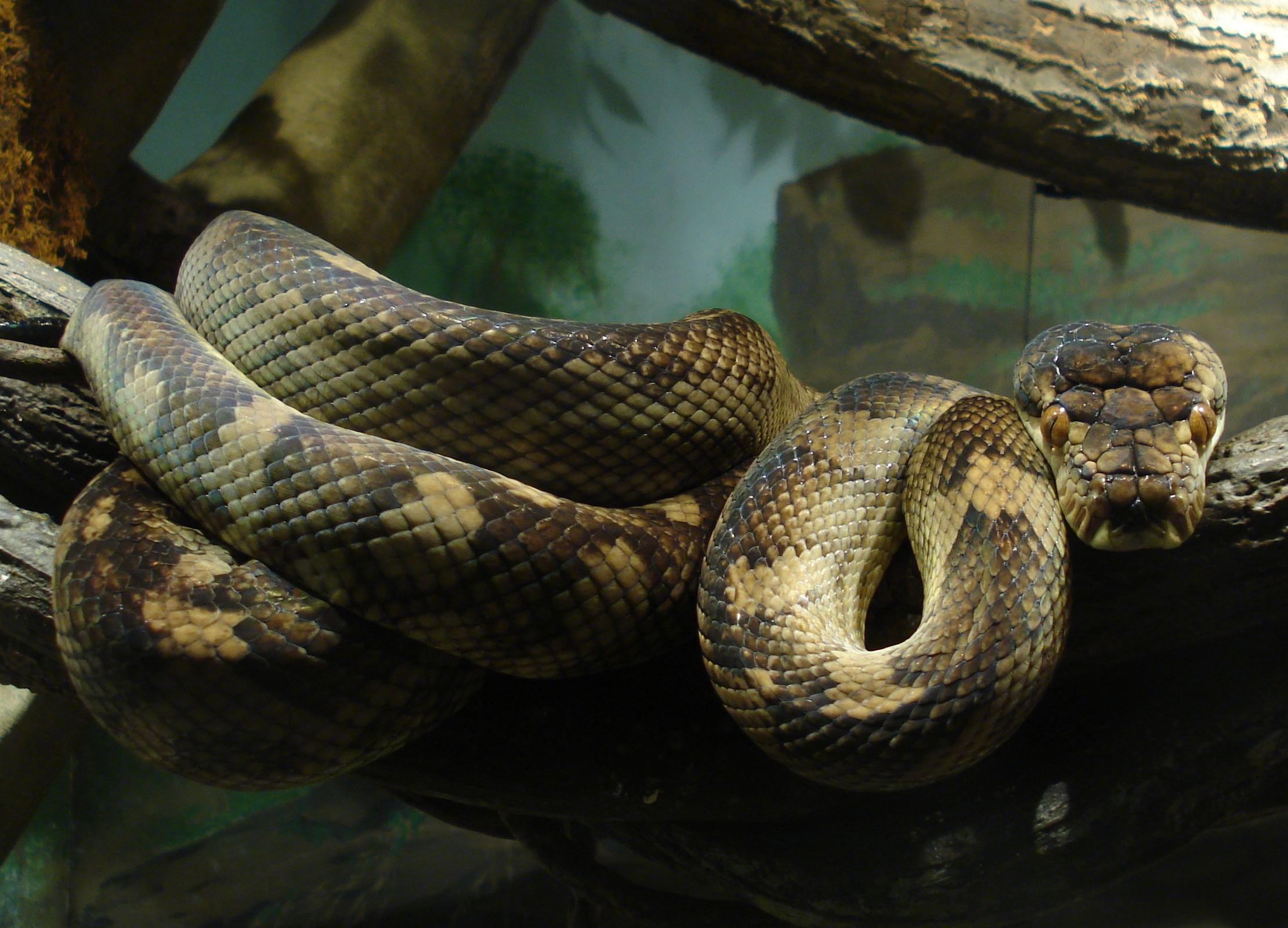 Morelia amethistina from the Bronx Zoo in New York City